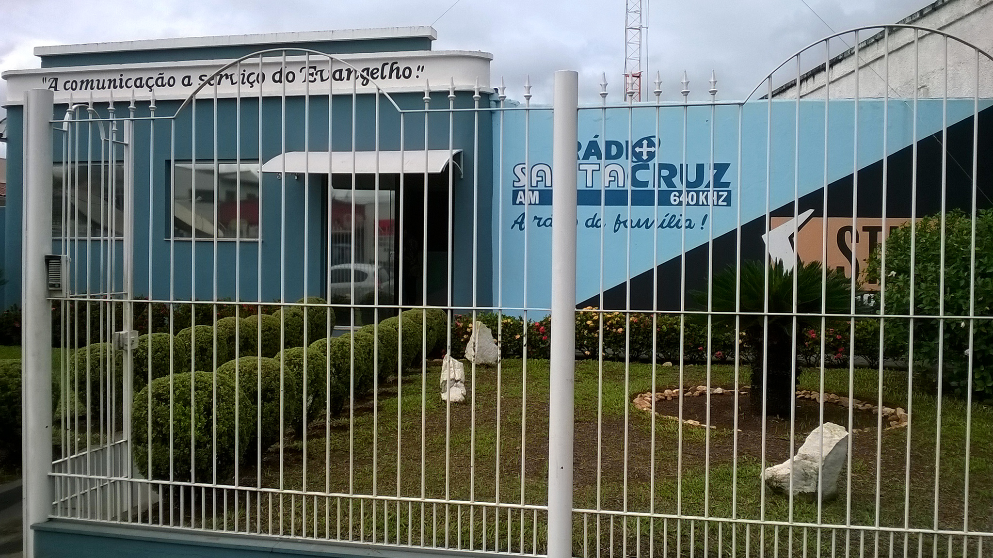 Headquarters radios Santa Cruz AM and Stilo FM in Pará de Minas, Minas Gerais, Brazil.